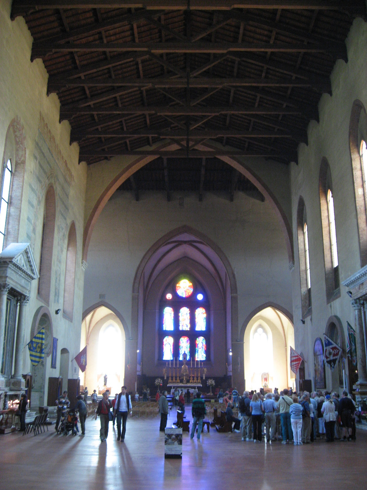 Interior of the Basilica of San Domenico (Siena).